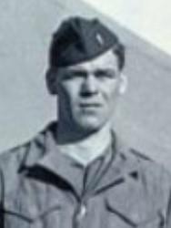 Black and white US Army photo of Karl H. Timmermann in uniform with cloth hat and fatigue jacket.